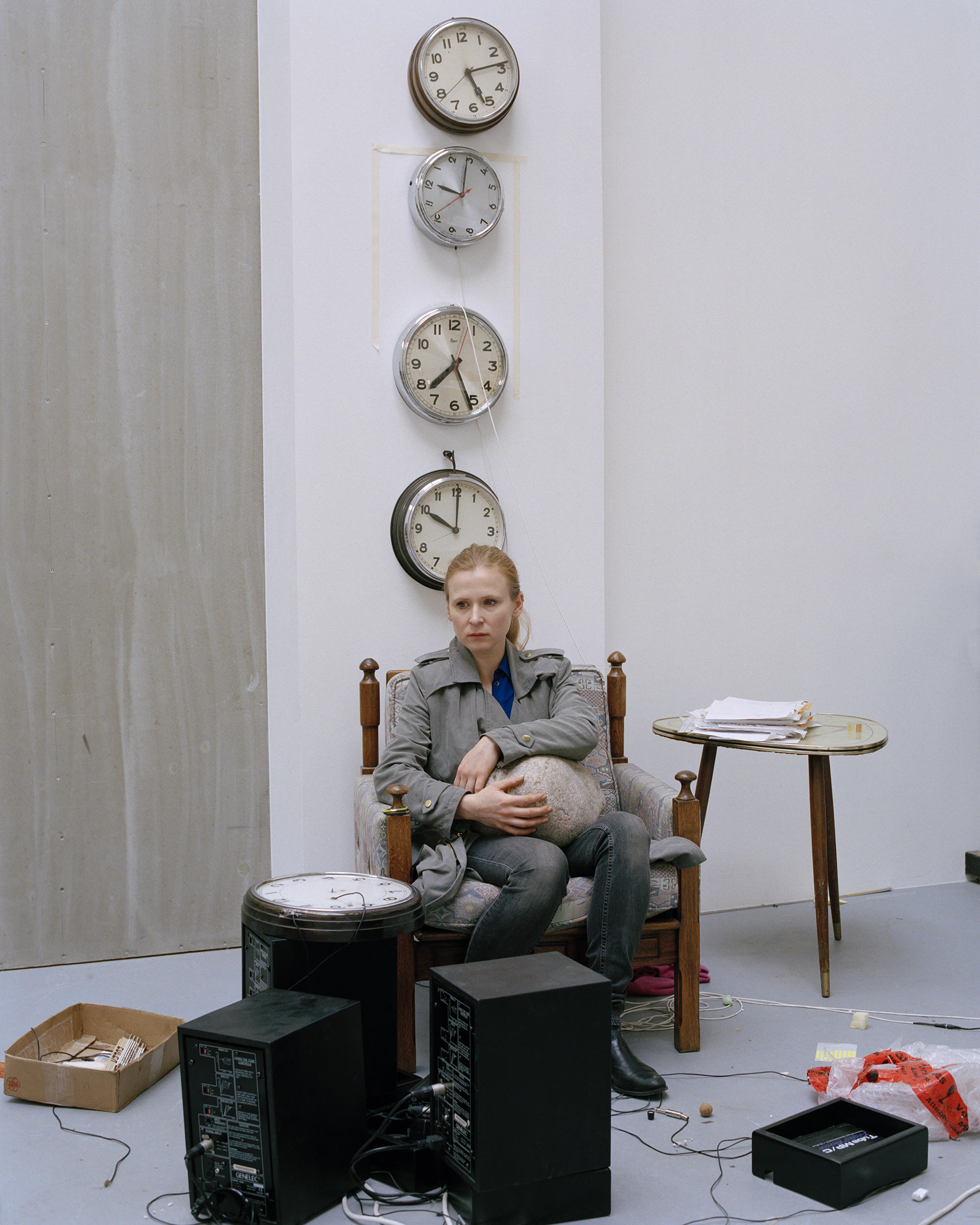 Alicja Kwade portrayed by Oliver Mark, Berlin 2014